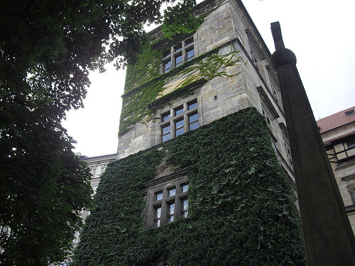 The site of the second defenestration of Prague. The Catholic priests lived after being thrown out of the window, which was seen as divine intervention. It was said they landed in a pile of horse dung and rolled down the hill, which softened the landing. Notice the memorial to the right of the tower.